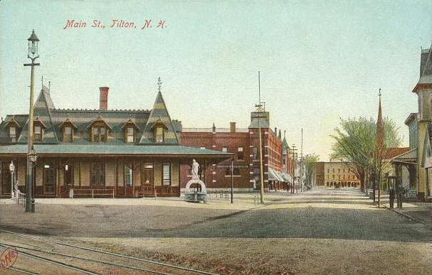 Main Street, Tilton, New Hampshire. The railroad station features a statue Charles E. Tilton bought in London in 1882.